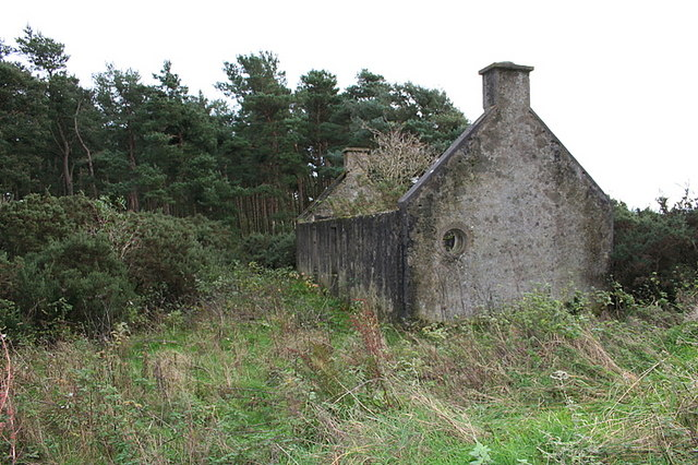 Derelict but and ben near Lochhill The "port hole" in the western gable is fairly uncommon.